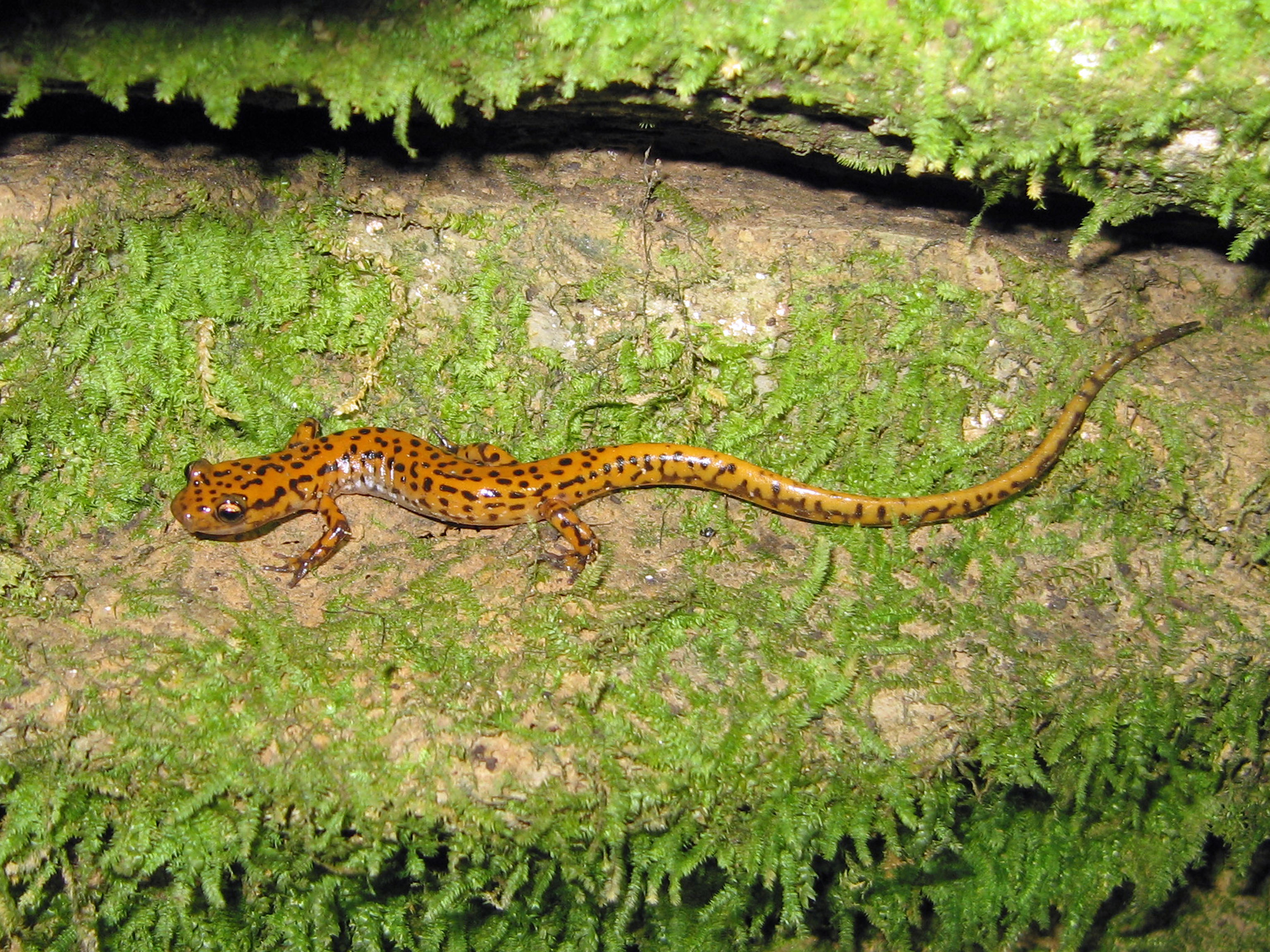 Cave salamander (Eurycea lucifuga)